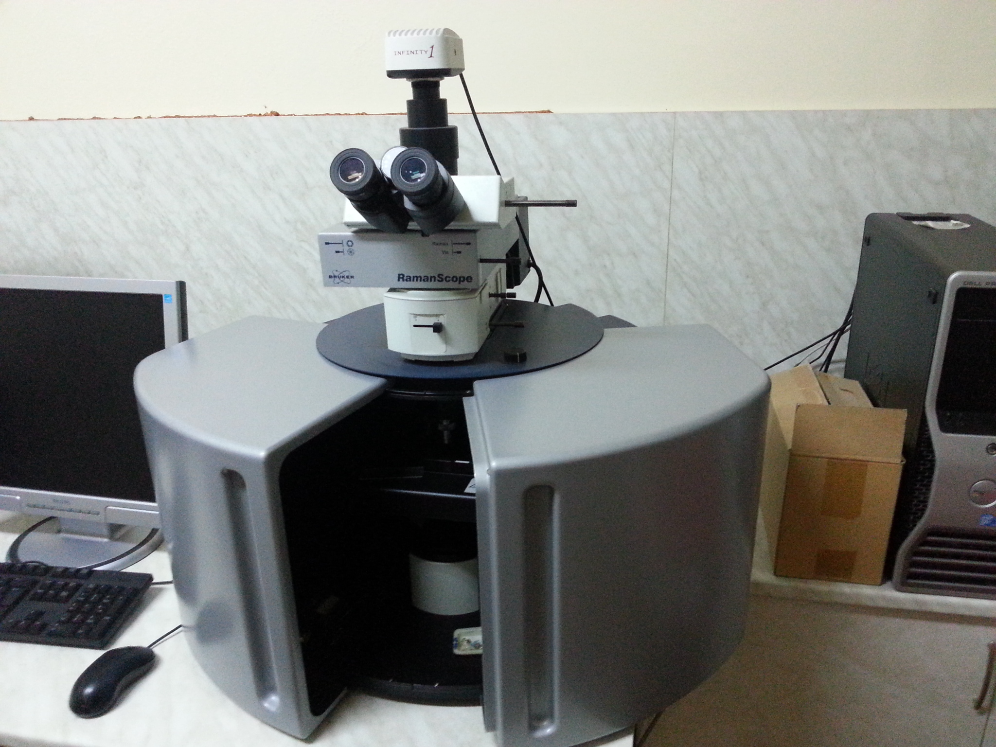 A RamanScope III device - a compact benchtop FT-Raman microscope for non-destructive microanalysis.